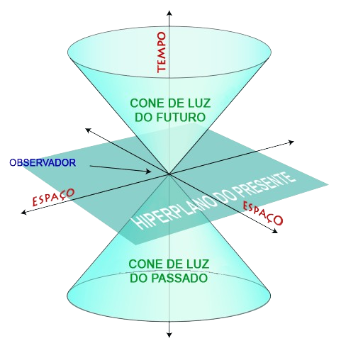 Brazilian Portuguese version of File:World_line.svg